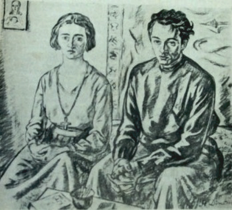 Drawing of Romanian writers Ionel and Ștefana Teodoreanu.